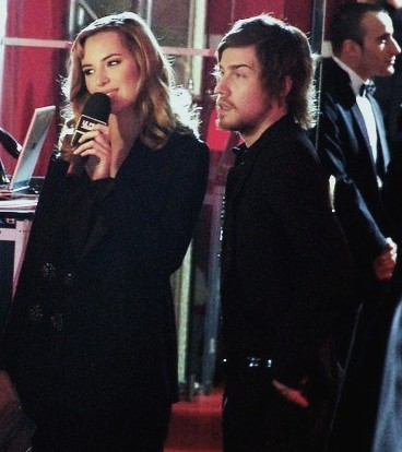 Louise Bourgoin, French actress and Julien Doré, French singer